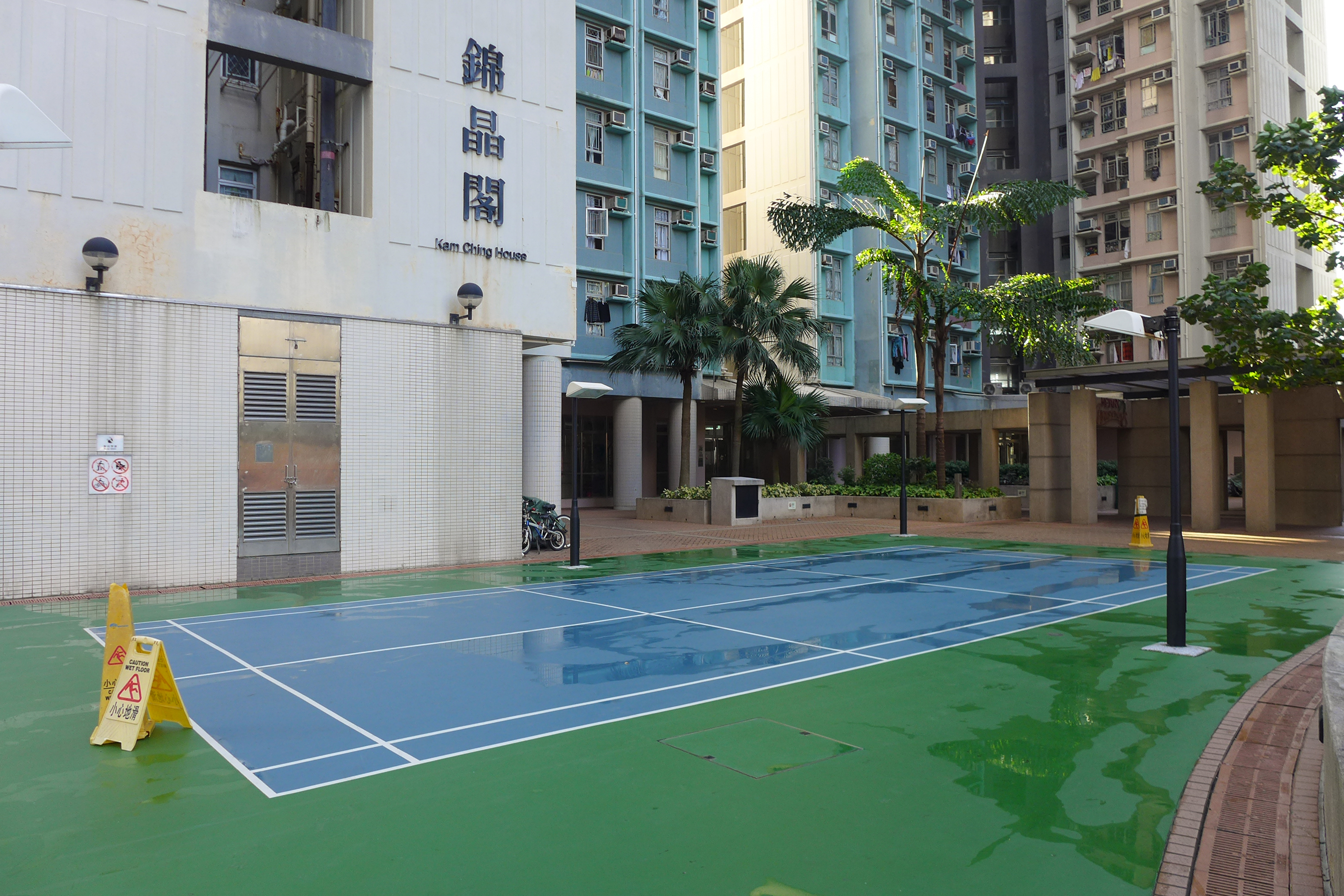 Kam Tai Court Badminton Court